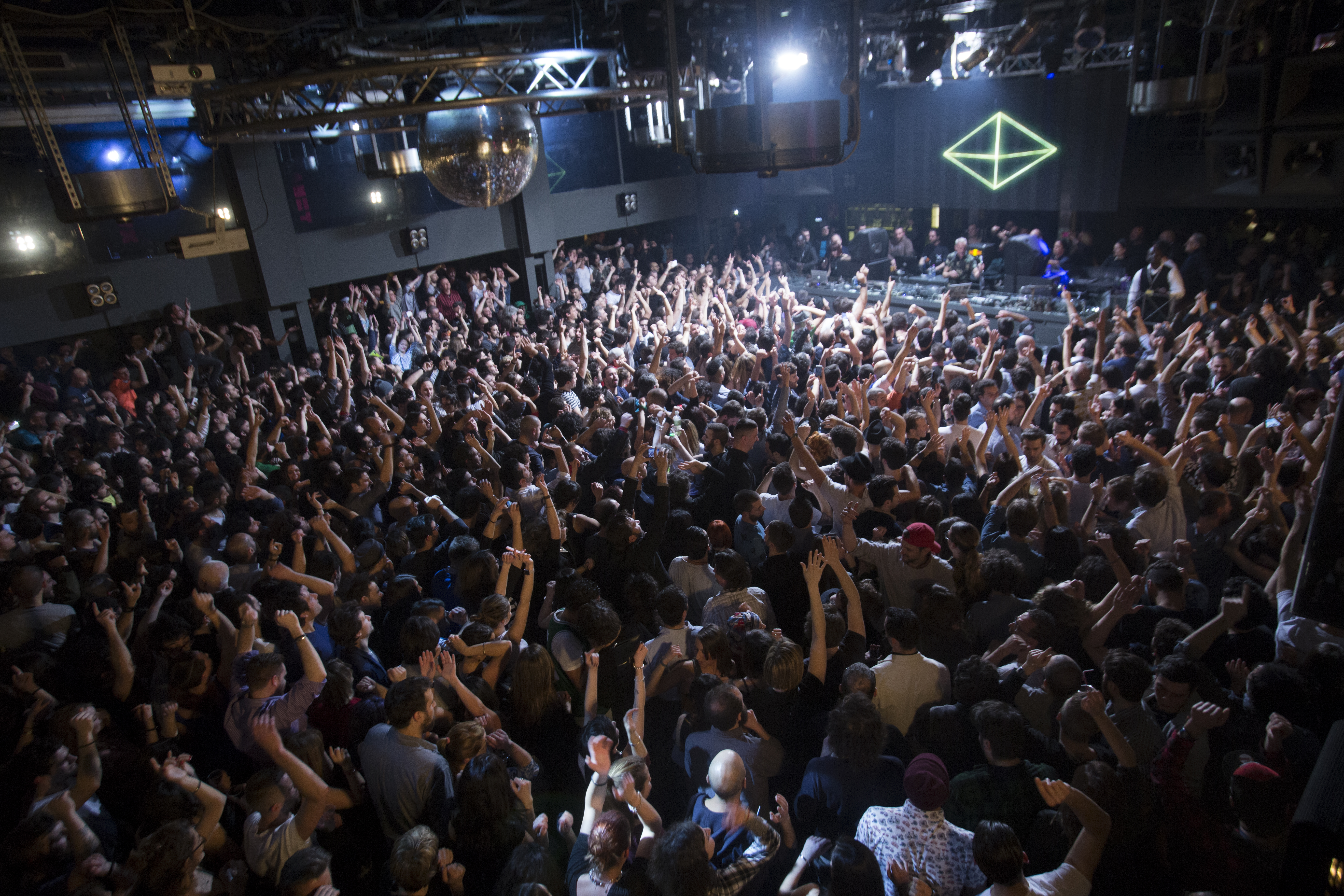 interior of Tenax Club in Florence, with Fat boy slim Dj